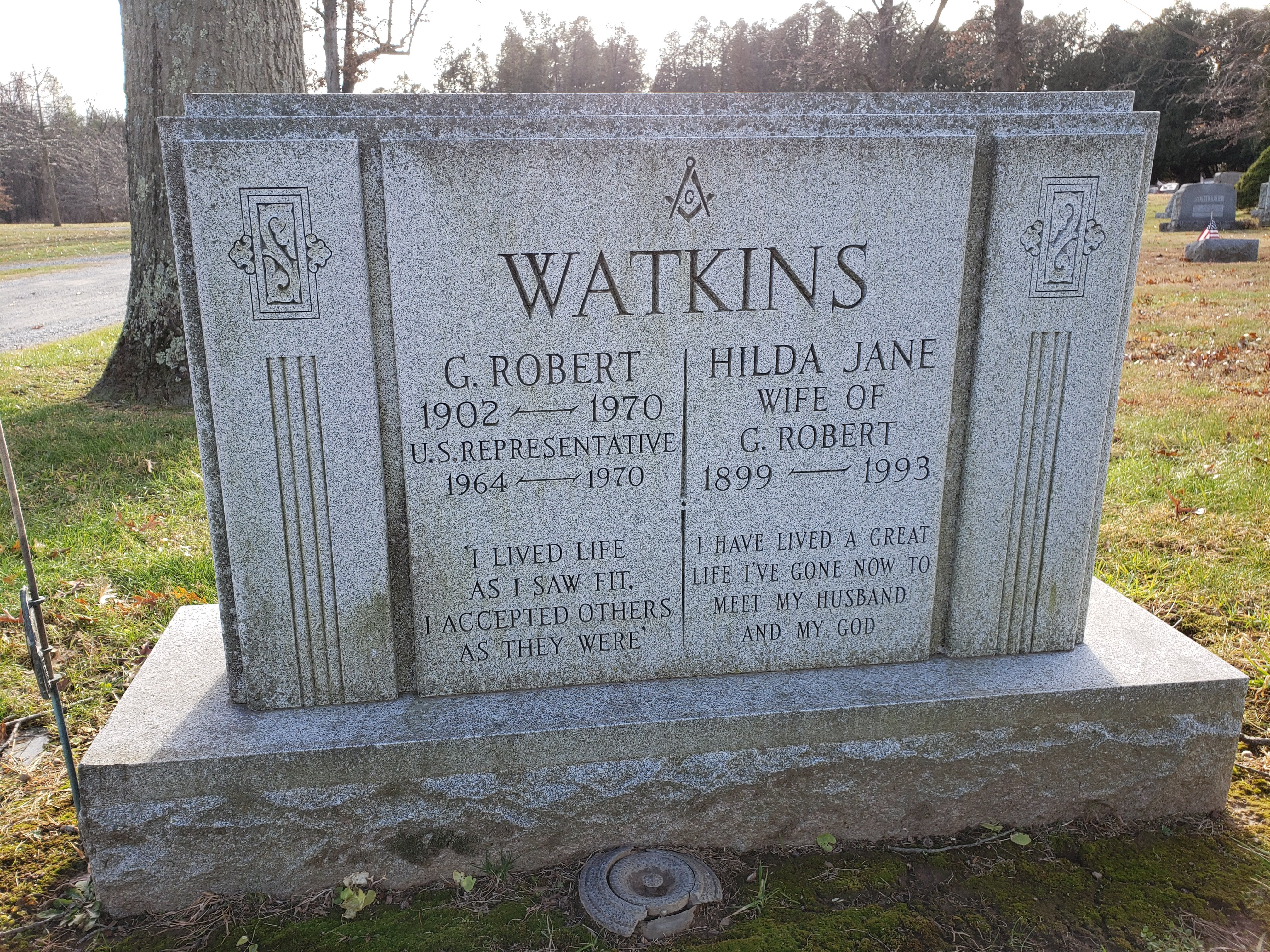 G. Robert Watkins grave at Birmingham-Lafayette Cemetery in Birmingham Township, Pennsylvania. Photo taken December 2019.